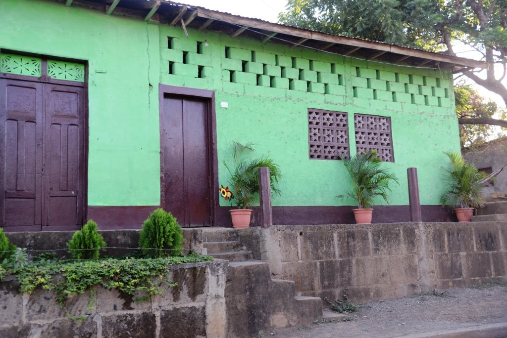 Una casa verde en Zembrano, municipio de Tipitapa.